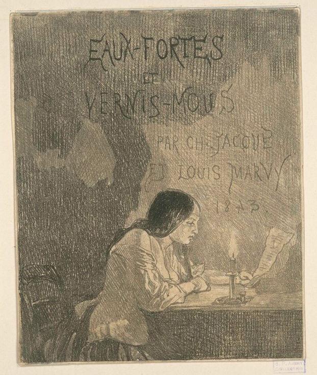 Holdings checked in departmental copy of L'Oeuvre de Ch. Jacque catalogue de ses eaux-fortes et pointes sèches / dressé par J.J. Guiffrey. Forms part of Etchings and drypoints by Charles Jacque in Samuel Putnam Avery Collection. Citation/Reference: G291